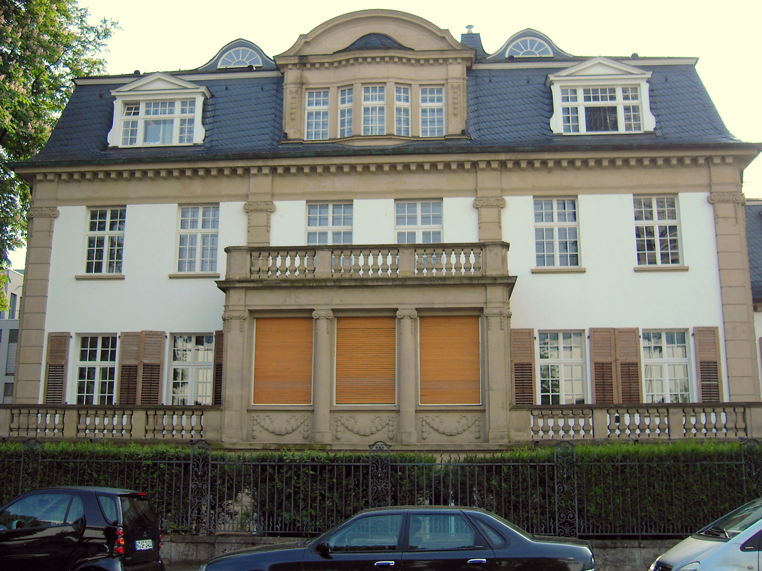 Former german residence of the egypt Ambassator (1961–1999) in Kurt-Schumacher-Straße in the former government and parliament quarter (present Bundesviertel) in the "Federal City" Bonn. The building was the seat of the Federal Press Office from September 1949 until May 1950.